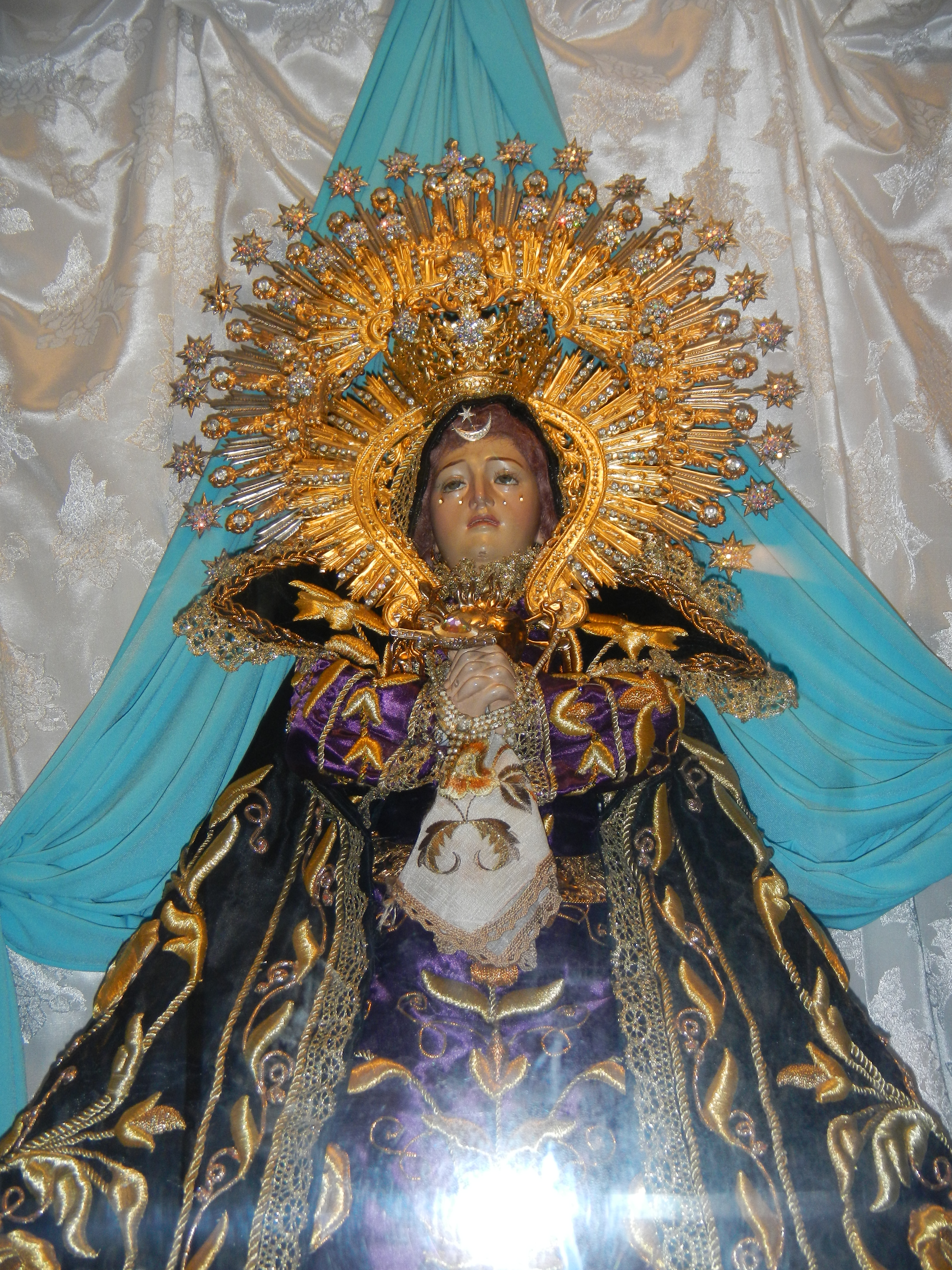 UploadWizard photos -- (General description, 3-dimension angle by angle photography of this town, church & landmarks) --- of - Templora Restort of Pakil, Laguna, Turumba Pool (miraculous mineral spring of water) -- part or beside --- Our Lady of Turumba[1] Nuestra Señora de los Dolores de Turumba ("Our Lady of Sorrows of Turumba") is the name for a specific statue of the Virgin Mary as Our Lady of Sorrows,[2] [3] enshrined in Diocesan Shrine of Nuestra Señora de los Dolores de Turumba - Saint Peter of Alcantara Parish Church of Pakil in Pakil, Laguna, where the image is enshrined. (belongs to the Roman Catholic Diocese of San Pablo [4] [5] Episcopal District IV Diocesan Shrine of Nuestra Señora de los Dolores de Turumba, Pakil, Laguna Vicariate of Saint James the Apostle - [6] Vicar Forane: Father Joseph B. dela Rosa Saint Peter of Alcantara Parish Address: Poblacion, Pakil 4017 Laguna, Philippine Feast day: October 19 Parish Priest: Father Alberto I. San Jose, Jr.) - Pakil, Laguna, (a fifth class urban municipality of Laguna, Philippines. According to the latest census, it has a population of 20,822. Its land area consists of two non-contiguous parts, separated by Laguna de Bay[7]. [8] Geographical location: Laguna, [9] Region 4, Philippines, Asia Geographical coordinates: 14° 22' 56" North, 121° 28' 46" East).[10]